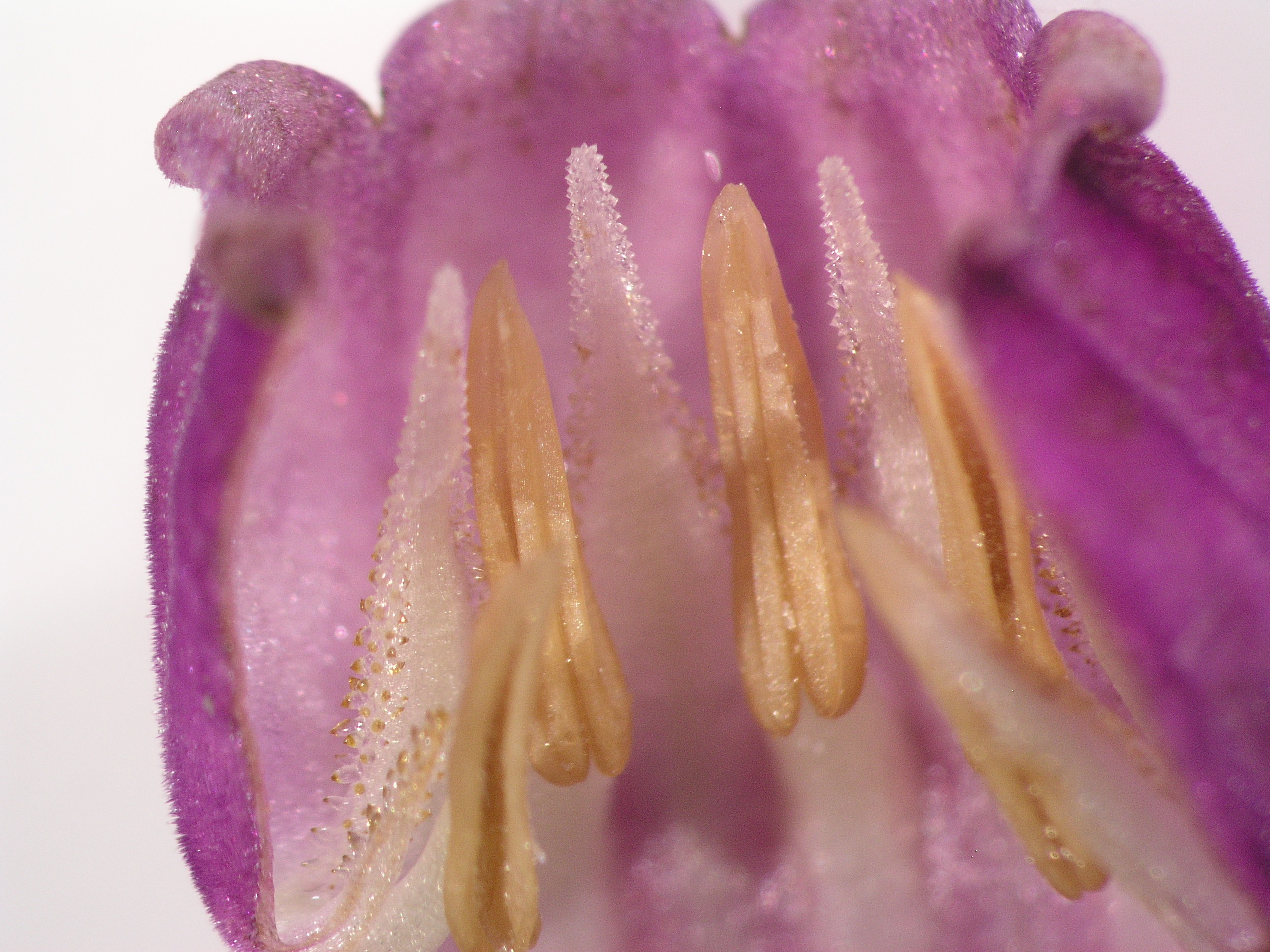 opend flower with stamina and flakes (fornices), Symphytum officinale